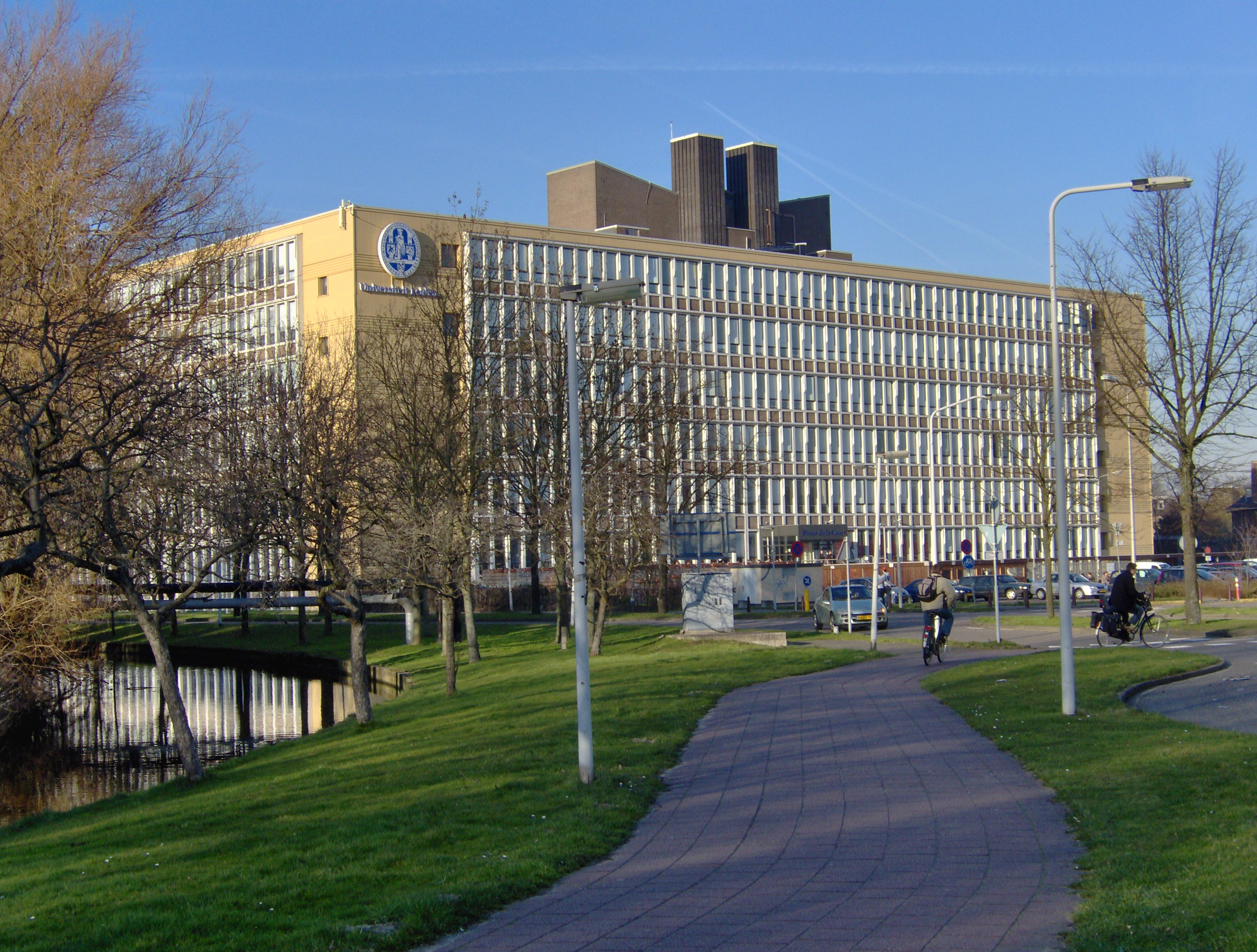 The Pieter de la Court building of the University of Leiden in Leiden, the Netherlands, serving as Faculty for Social Sciences of Leiden University. Architect: Henry Tino Zwiers (1965)